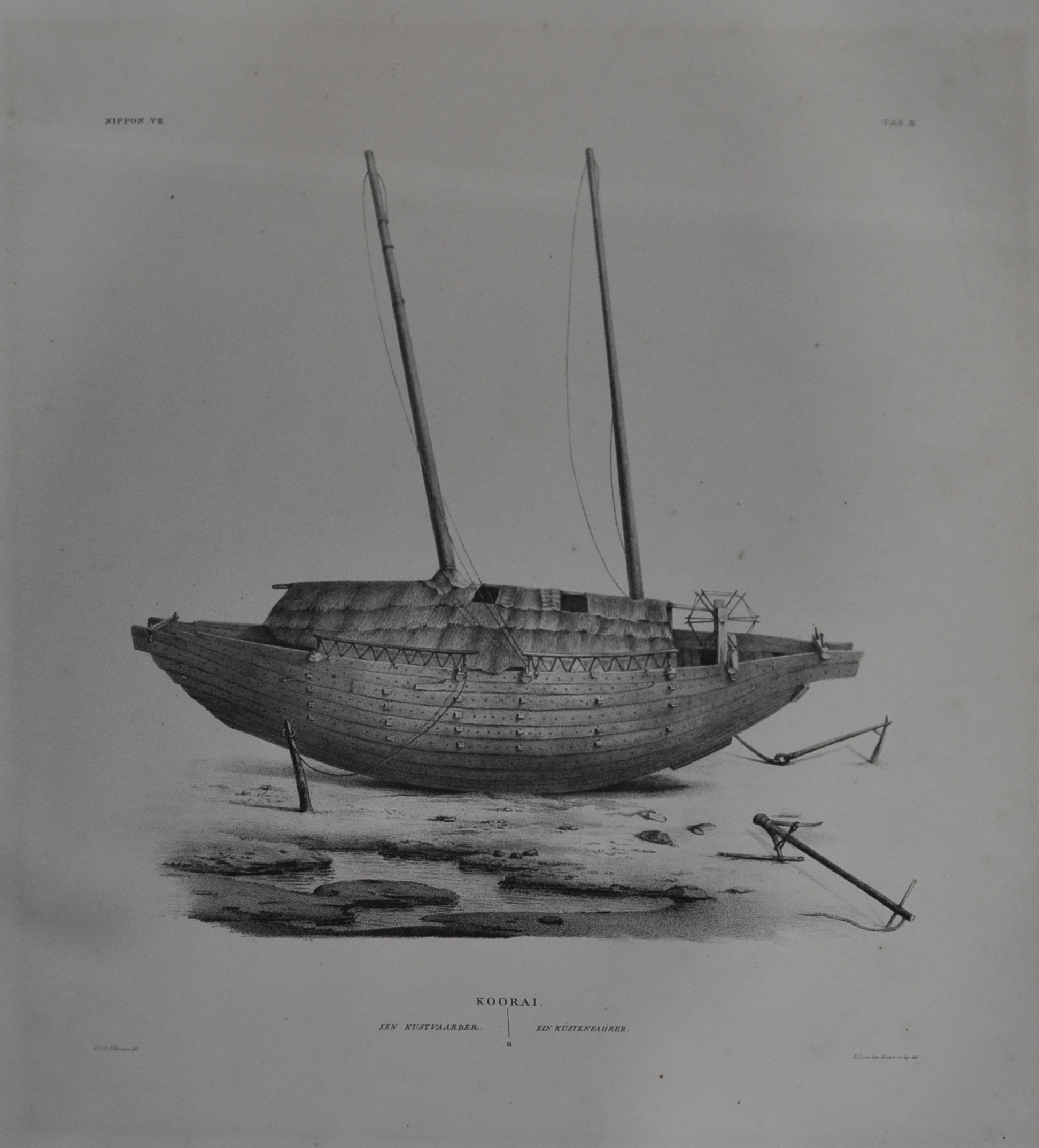 "Koorai. Kustvaarder. Ein Küstenfahrer". "Nippon VH". "Tab ?". Boat of Joseon, coaster.